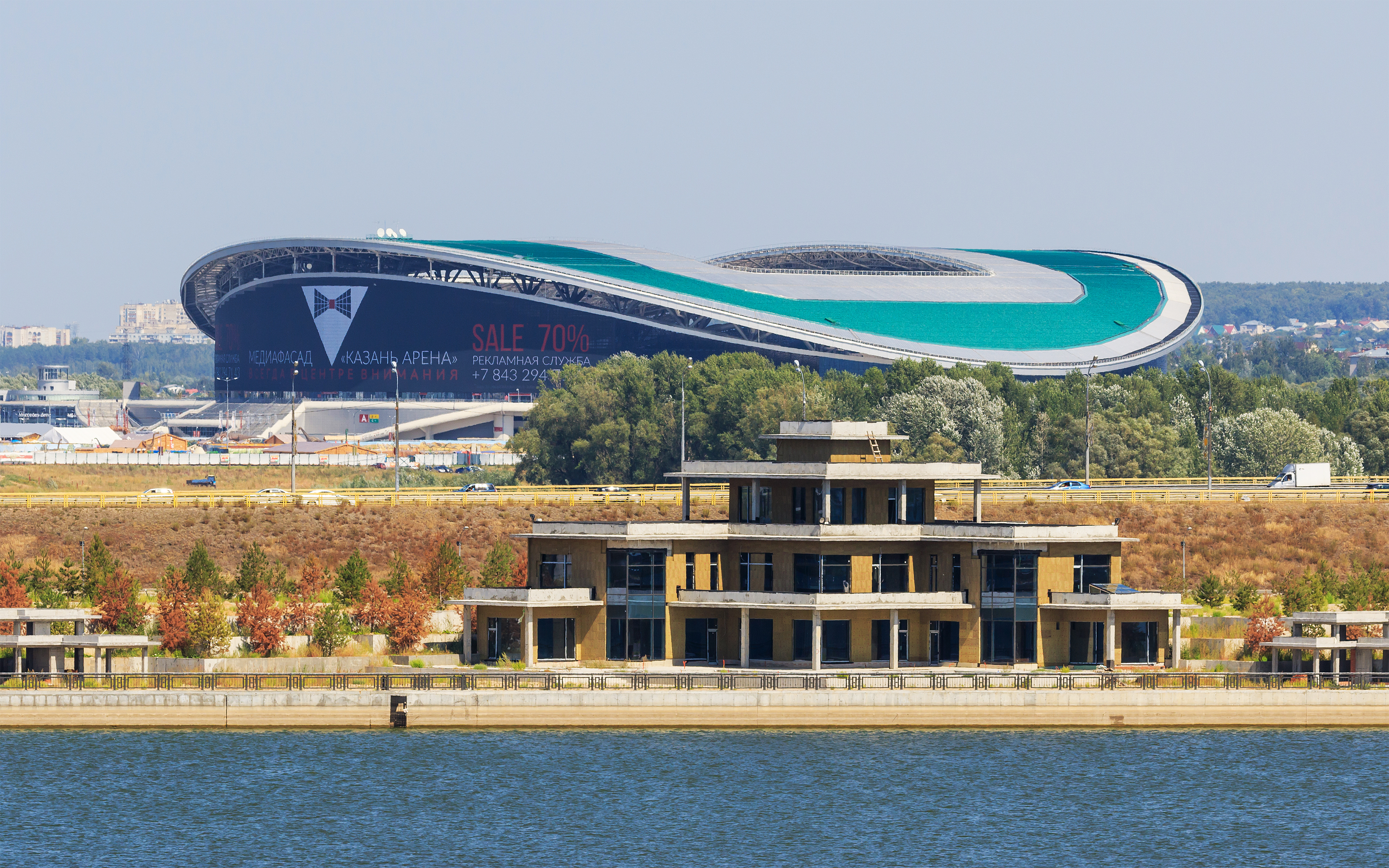 The Kazan Arena in Kazan, Russia